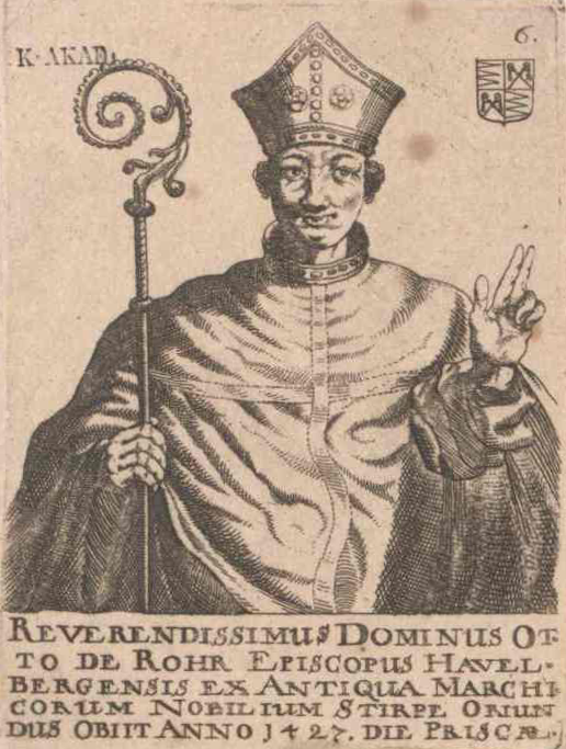 Otto von Rohr (c1350-1427), the German Bishop of Havelberg from 1401 to 1427. This version has been cropped and rotated slightly.